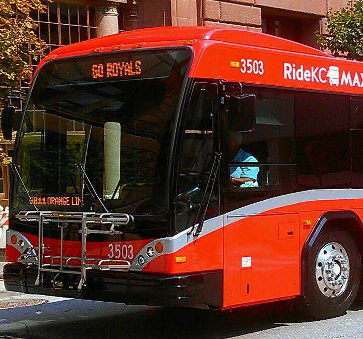 Main Max Line